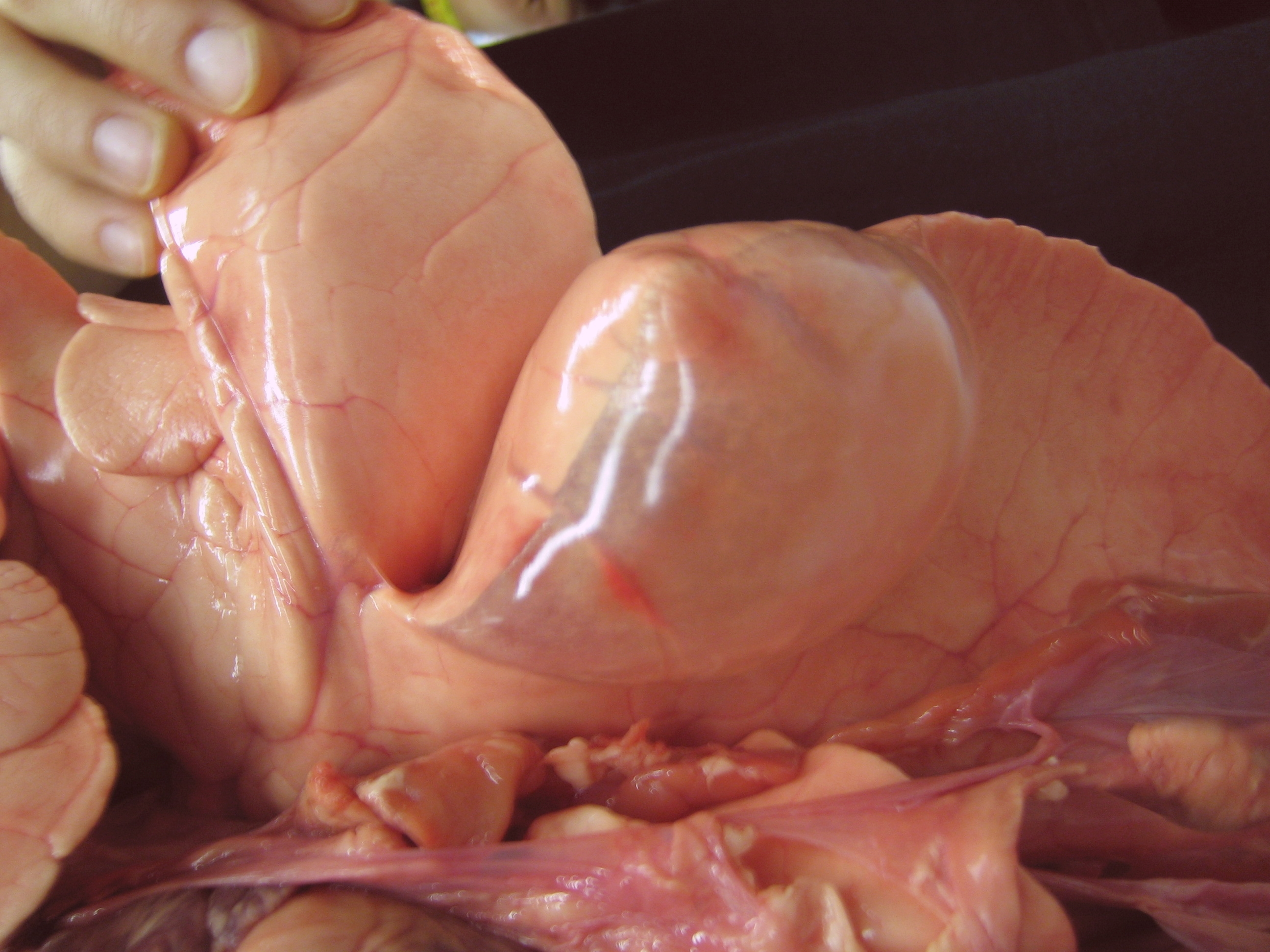 Too much air has been blowed to a pig's (Sus scrofa domesticus) lung (pulmo), a part of lung has ruptured and filled with air